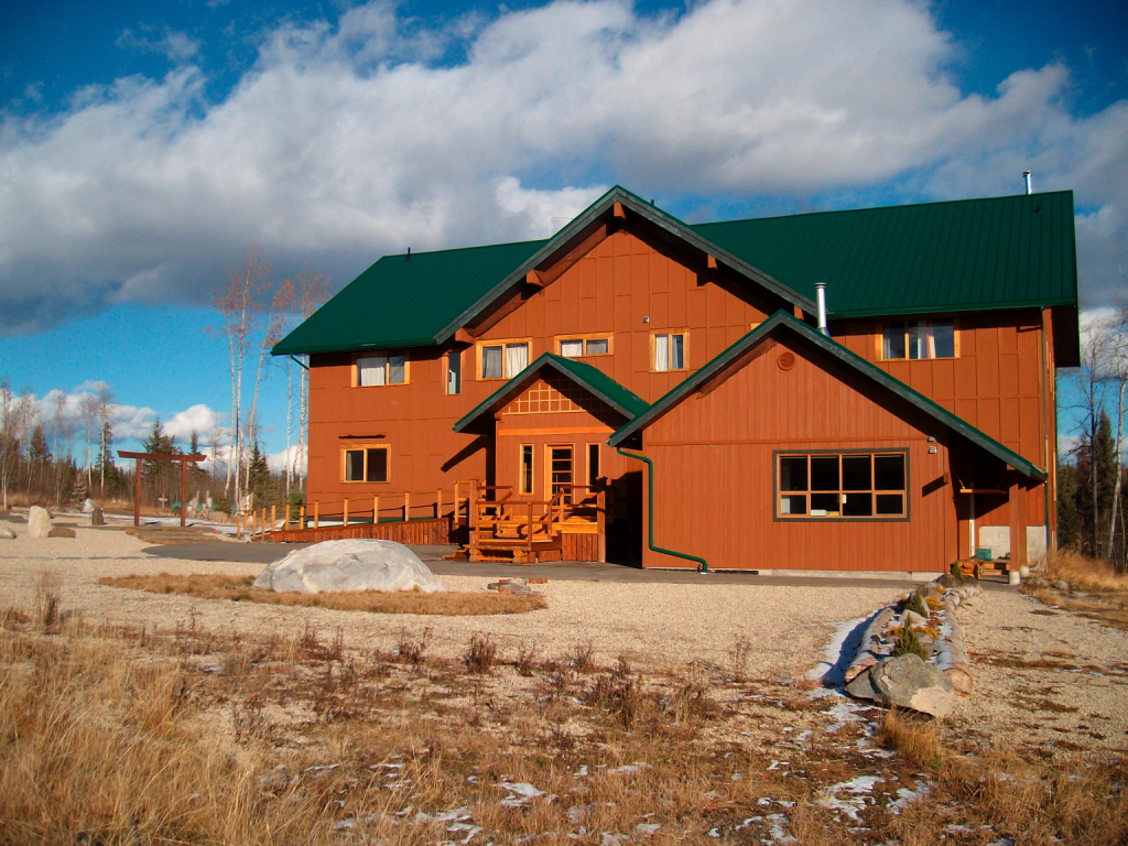 Southwest side of Birken Forest Buddhist Monastery ( Taken on November 13, 2008.